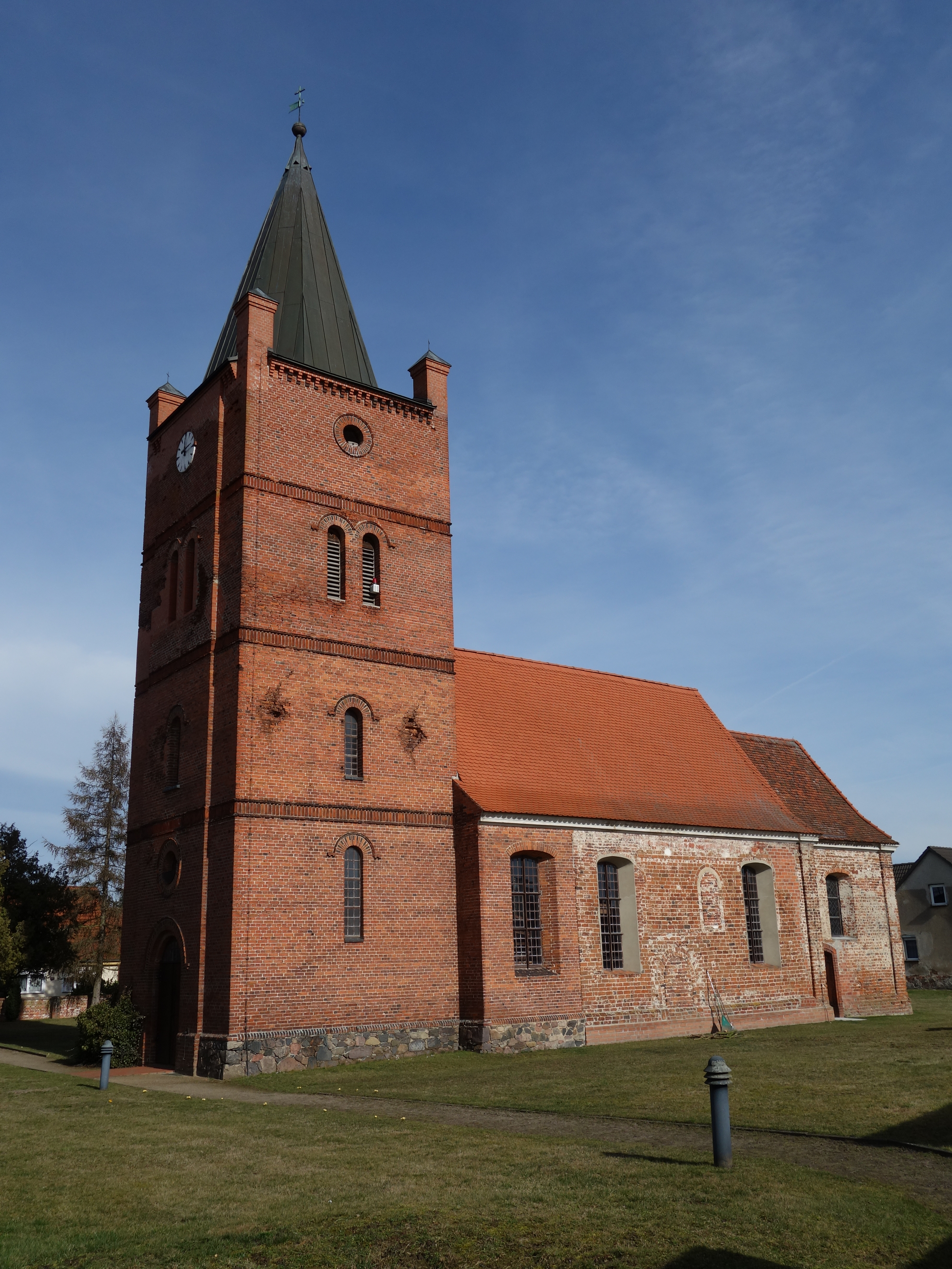 South-western view of village church in Zollchow, Milower Land municipality, Havelland district, Brandenburg state, Germany.